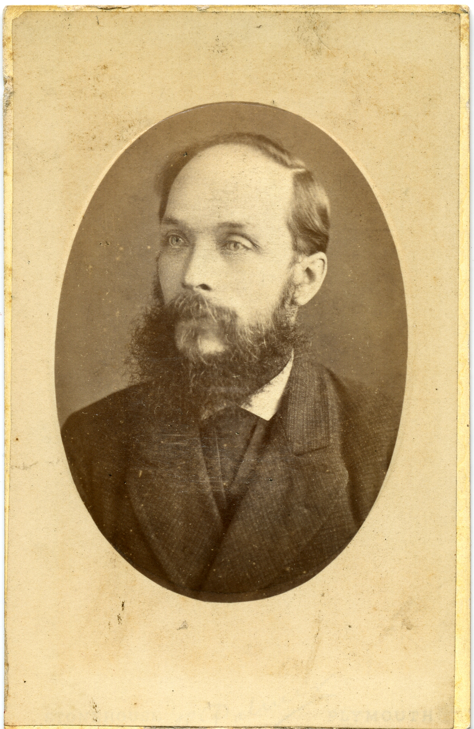 Carte de visite photo of young bearded man by John Eastman Palmer, of 58 Union Street, Stonehouse, Plymouth, Devon, England. The reverse of the card indicates that the photo was taken after 1872. The oval photograph is on raised paper in the shape of a watch glass.